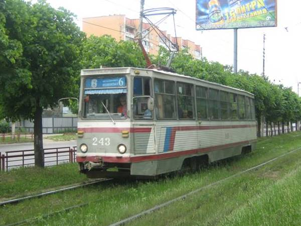 tver tramway